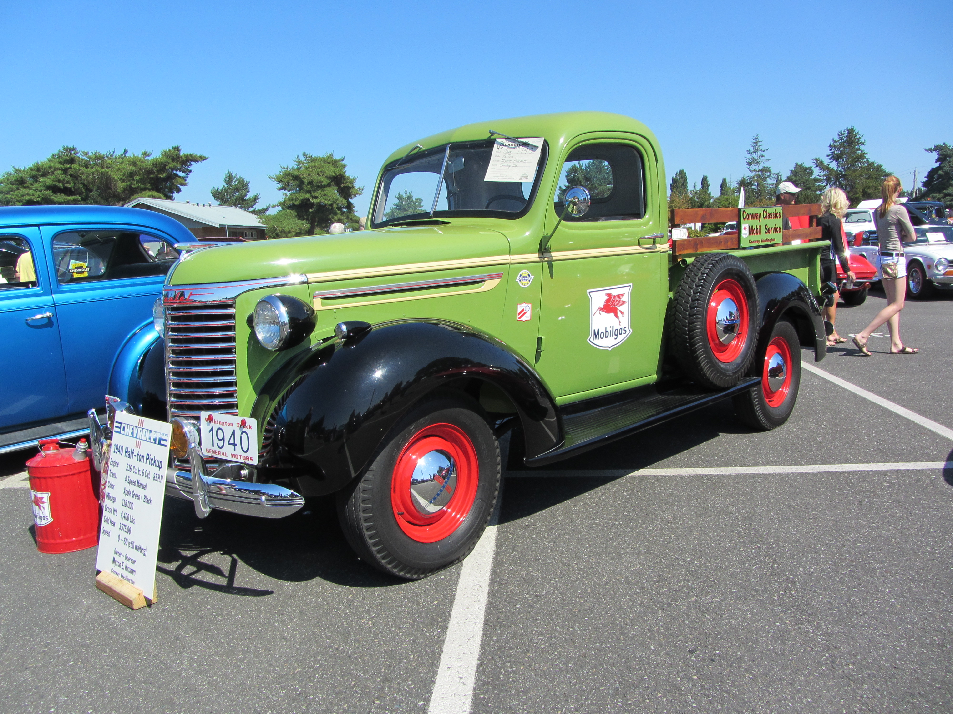 Car and Boat Show in LaConner, Washington